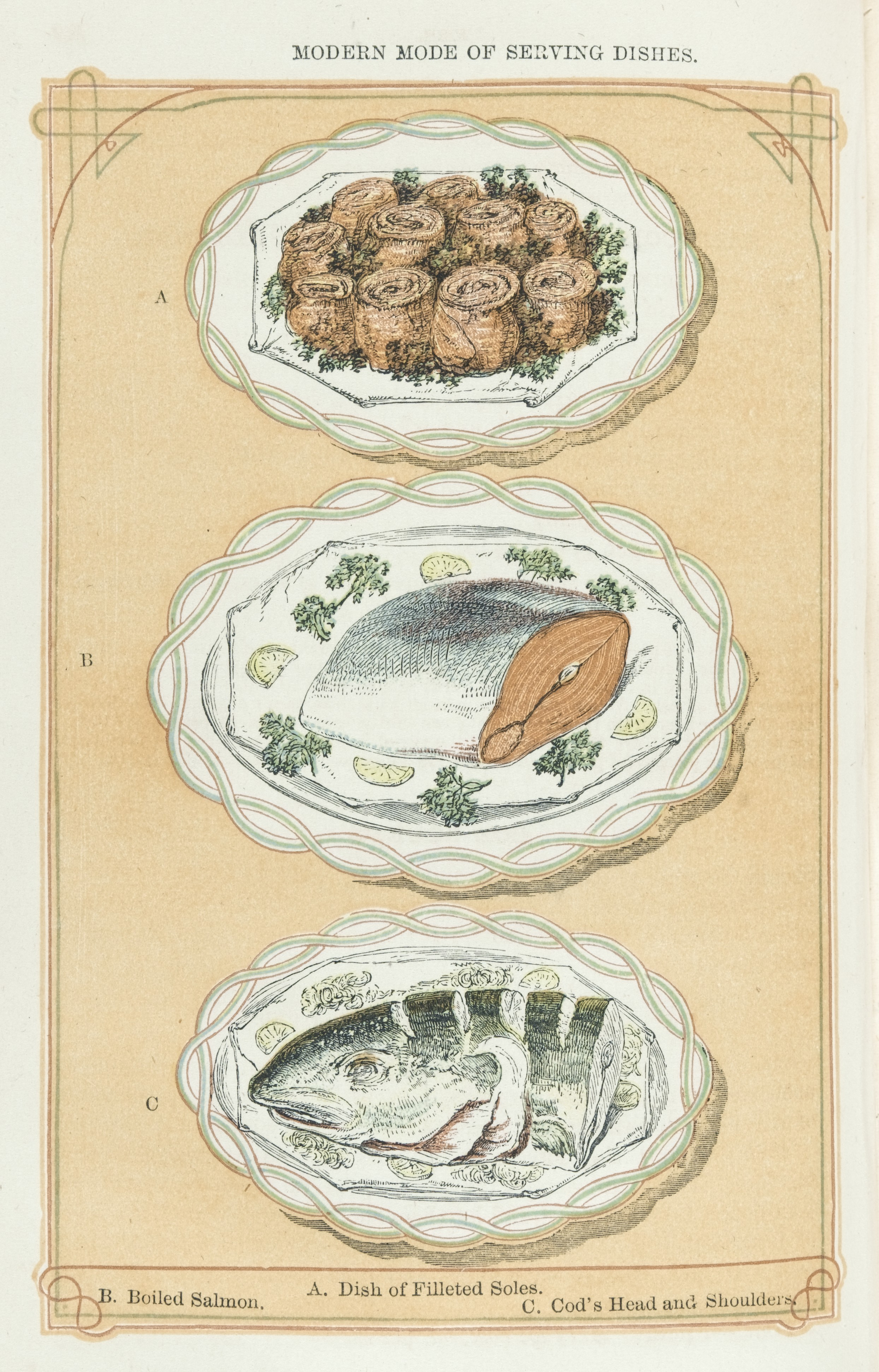 The book of household management. A selection of fish dishes: A) A selection of filleted soles. B) Boiled Salmon. C) Cod's head and shoulders. General Collections Keywords: Cooking; Domestic; Cookery; Housekeeping